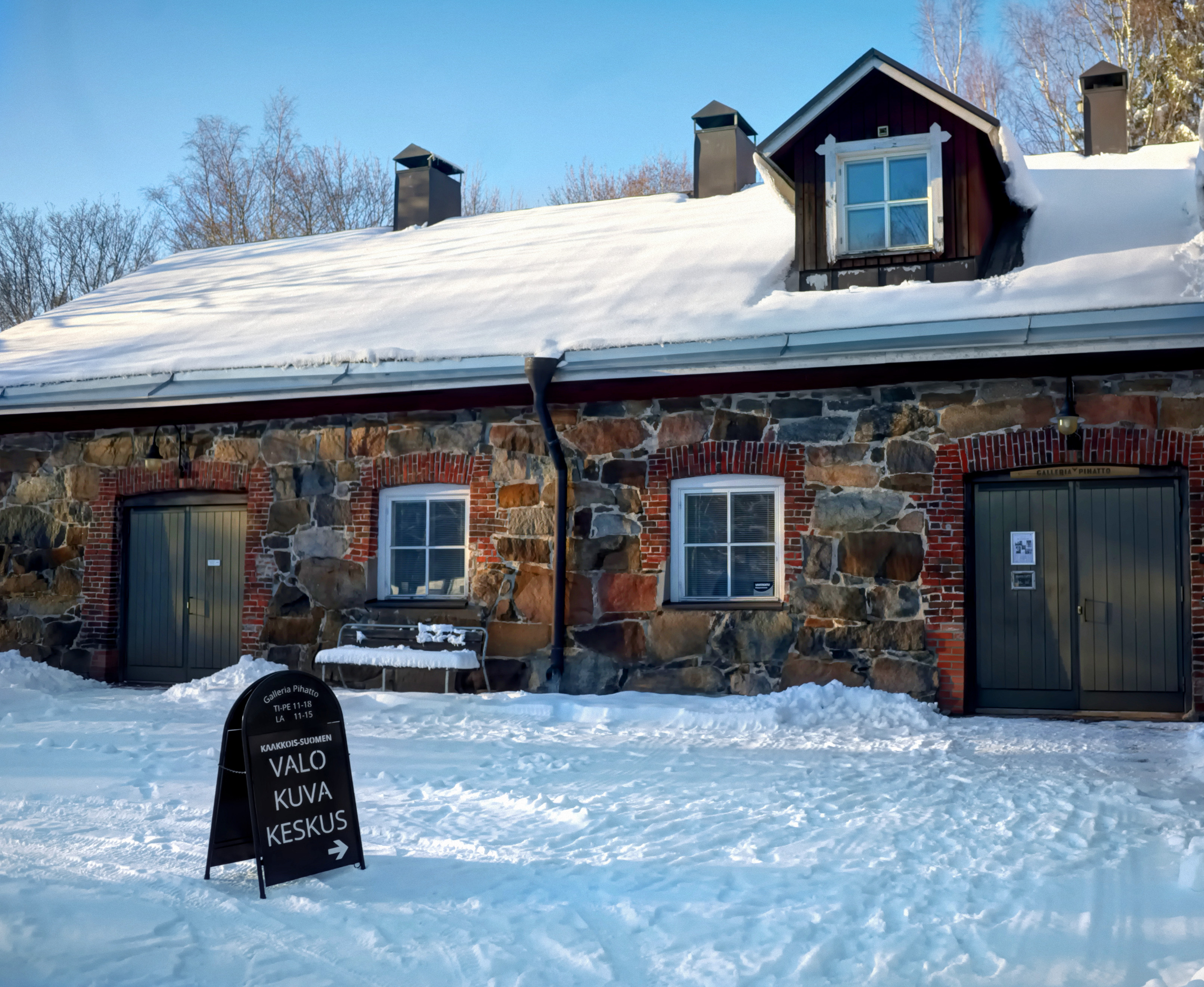 Gallery Pihatto, Lappeenranta, Finland